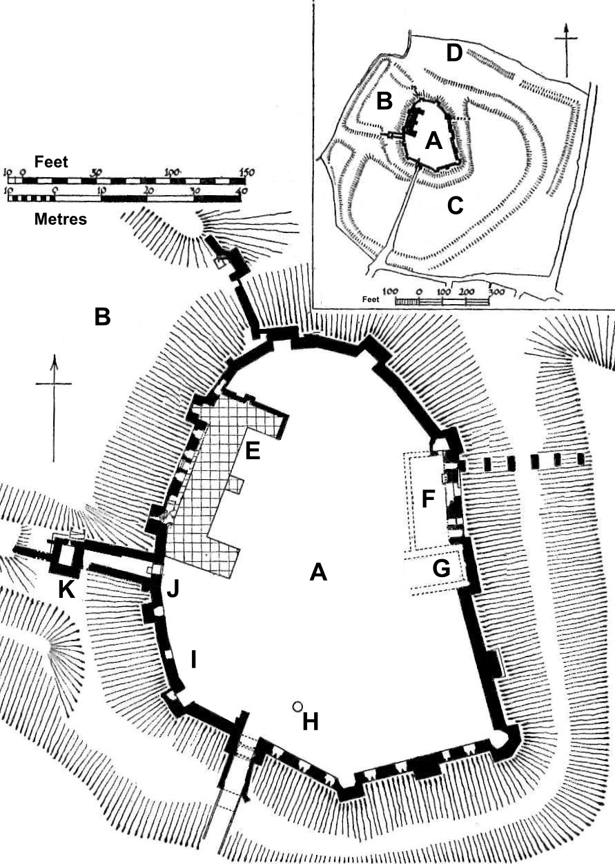 A plan of Framlingham Castle, cleaned up and labelled by hchc2009